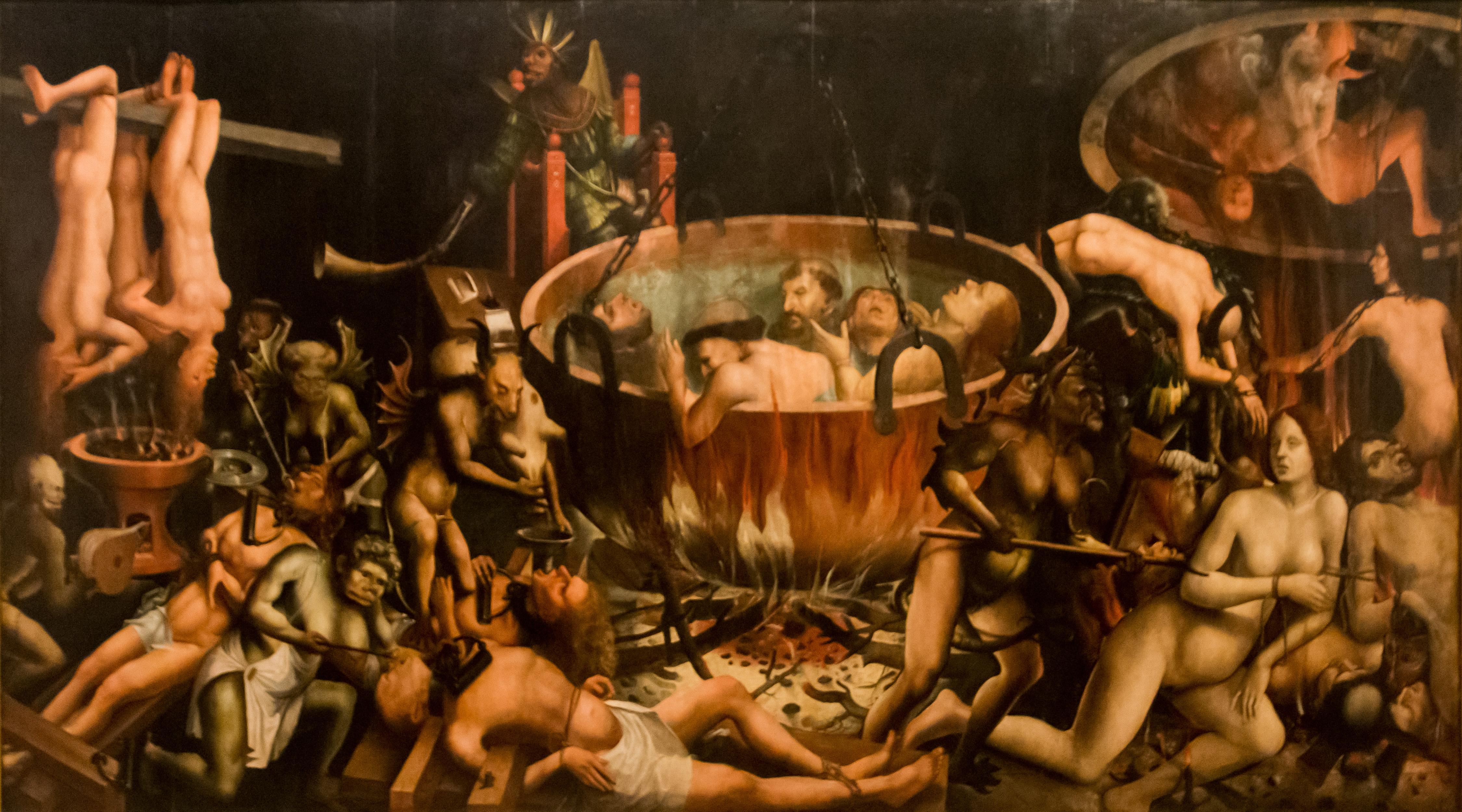 Representation of the torments of Hell.